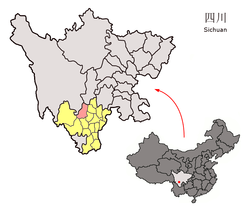 Location of Mianning County (pink) and Liangshan Prefecture (yellow) within Sichuan province of China Map drawn in september 2007 using various sources, mainly : Sichuan province administrative regions GIS data: 1:1M, County level, 1990 Sichuan Counties map from